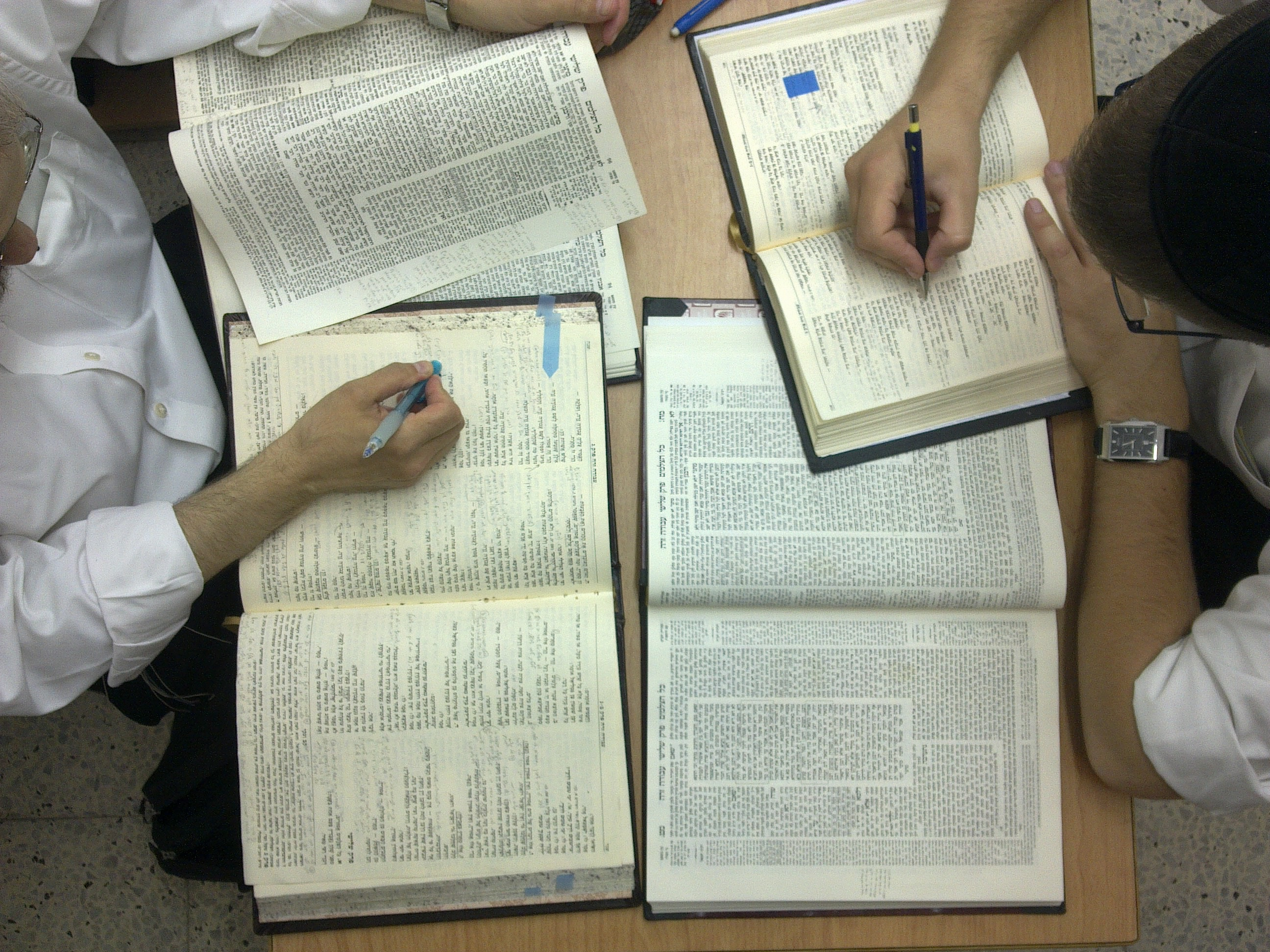 Old city of Jerusalem, חצר גליציה Galizia courtyard - Kolel Galicia - study of the talmud